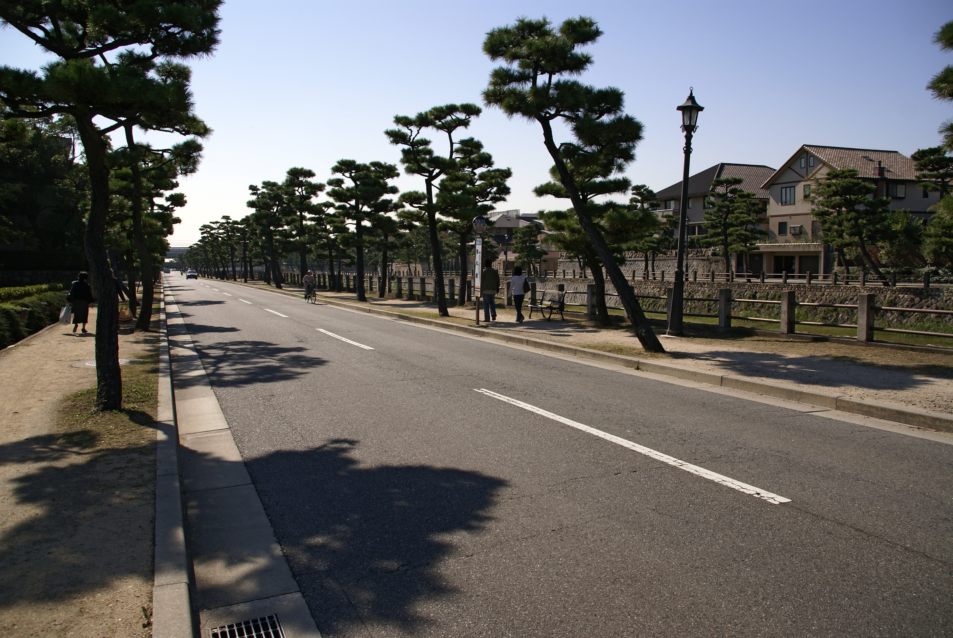 Ashiya River in Ashiya, Hyogo prefecture, Japan